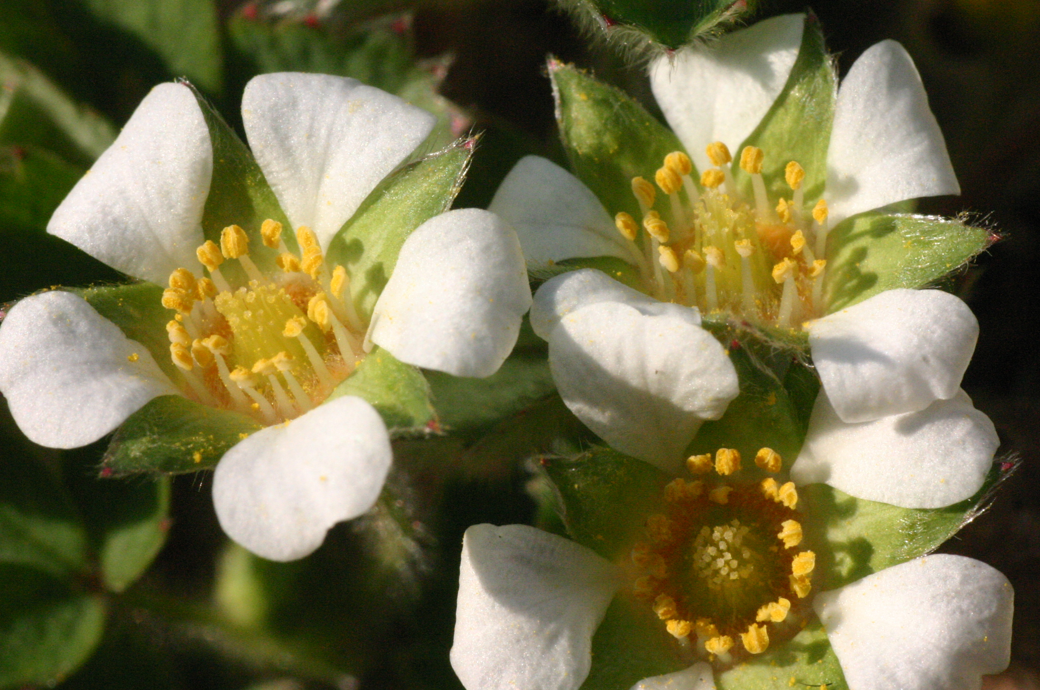 Potentilla sterilis